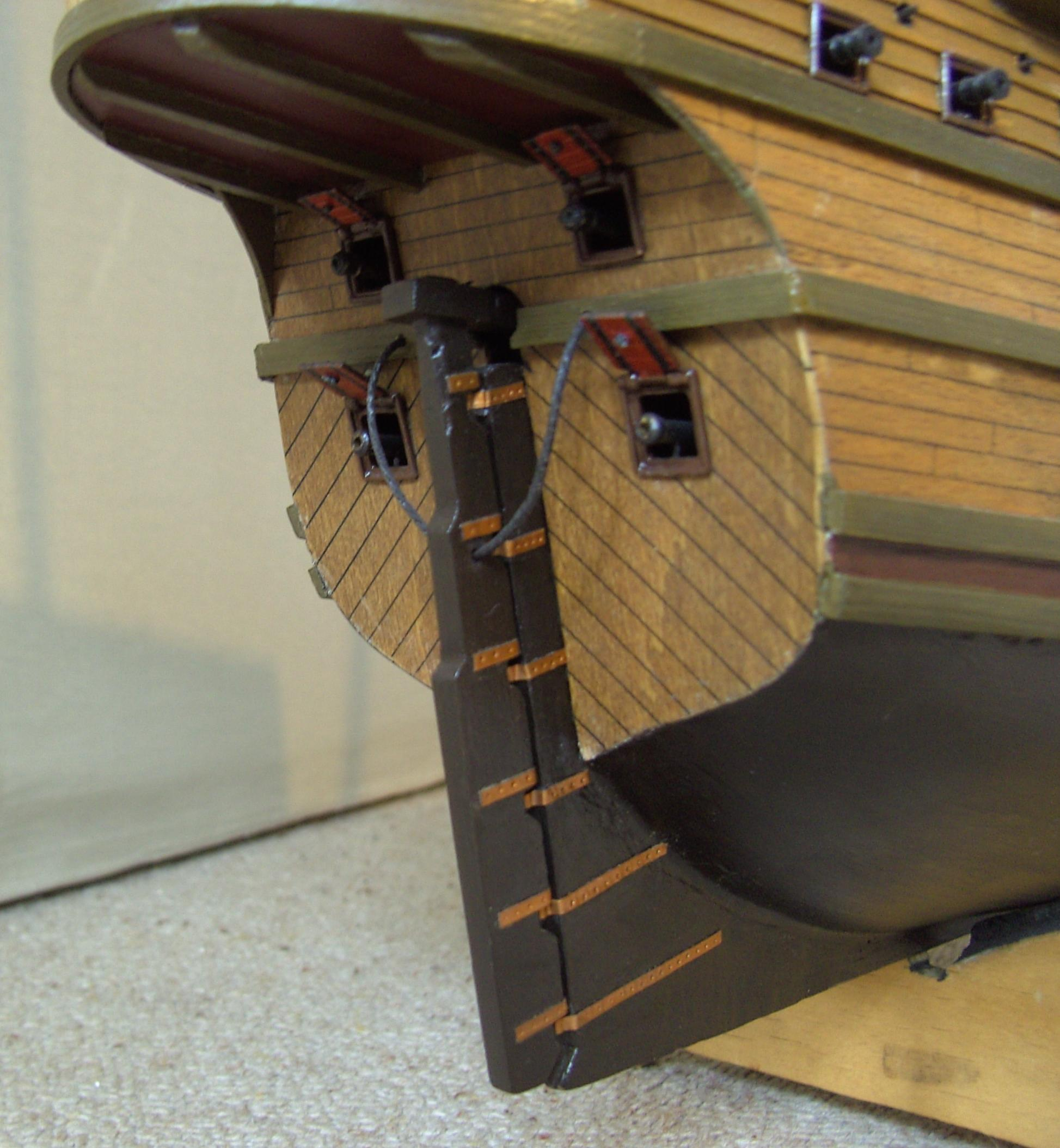 Sternpost-mounted rudder of the Graupner model ship of the Adler von Lübeck, the Hanseatic league flagship (1567-81). This type is also called pintle-and-gudgeon rudder after the method of its attachment to the sternpost.